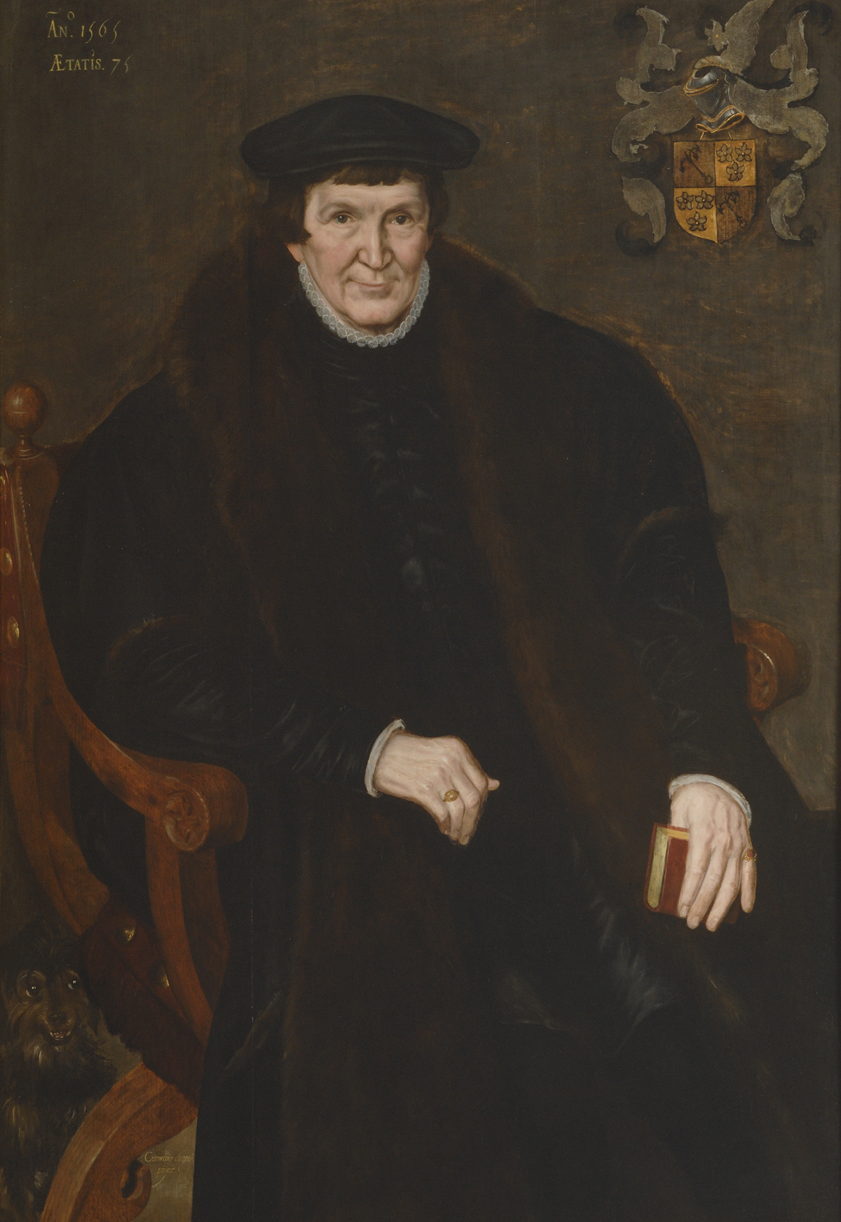 (sometimes called 'Sir William Cordell')